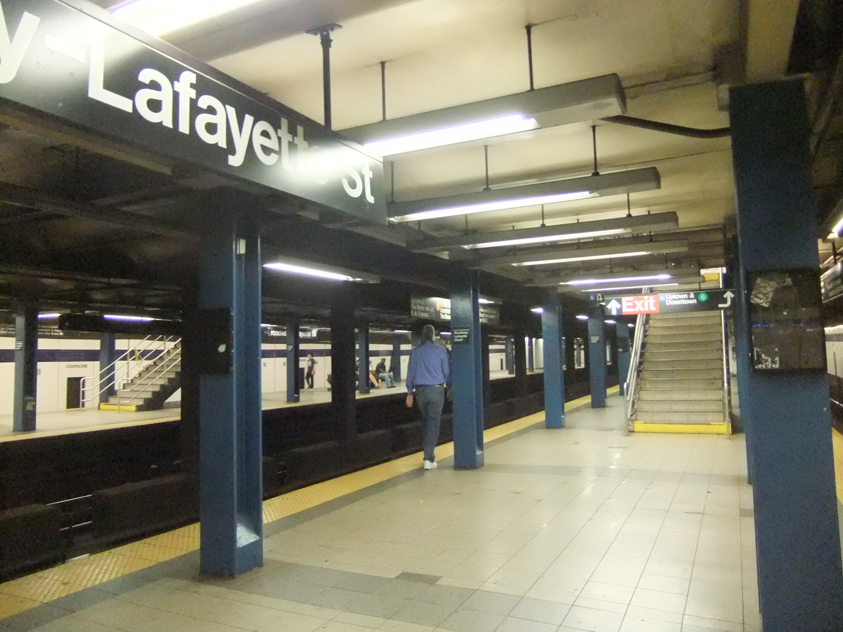 Uptown B/D/F/M platform at Broadway - Lafayette Street